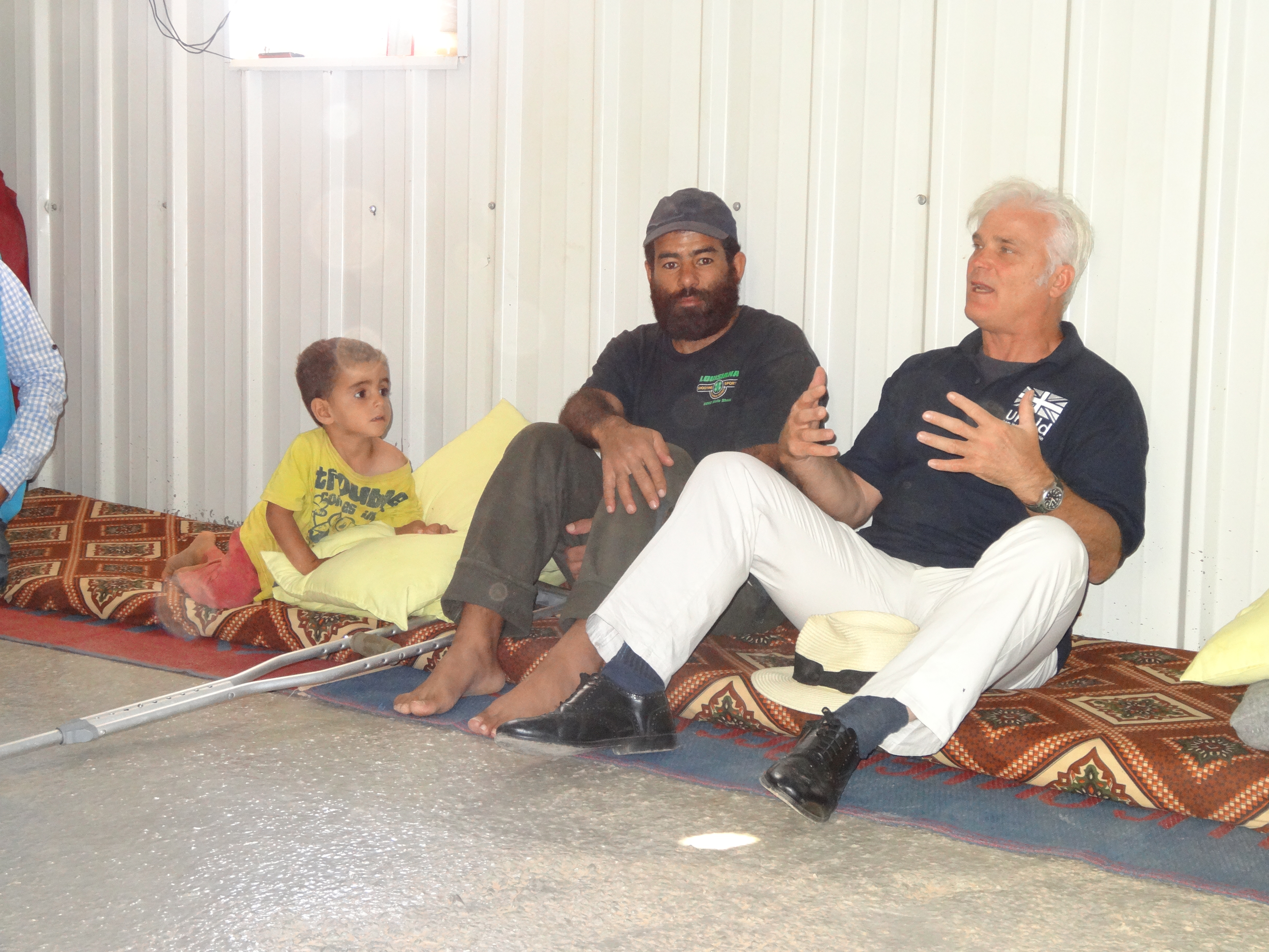 DFID - UK Department for International Development International Development Minister Desmond Swayne visits Jordan DFID Minister of State Desmond Swayne talking with a Syrian refugee in Camp Azraq, Jordan.